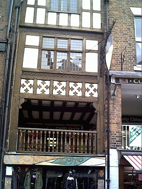 St Michael's Old Rectory. Narrow Building in Bridge Street, Chester. On the Floor above row level is the Old Rectory of St Michael's Church. The building is now a shop. You can visit the rectory.